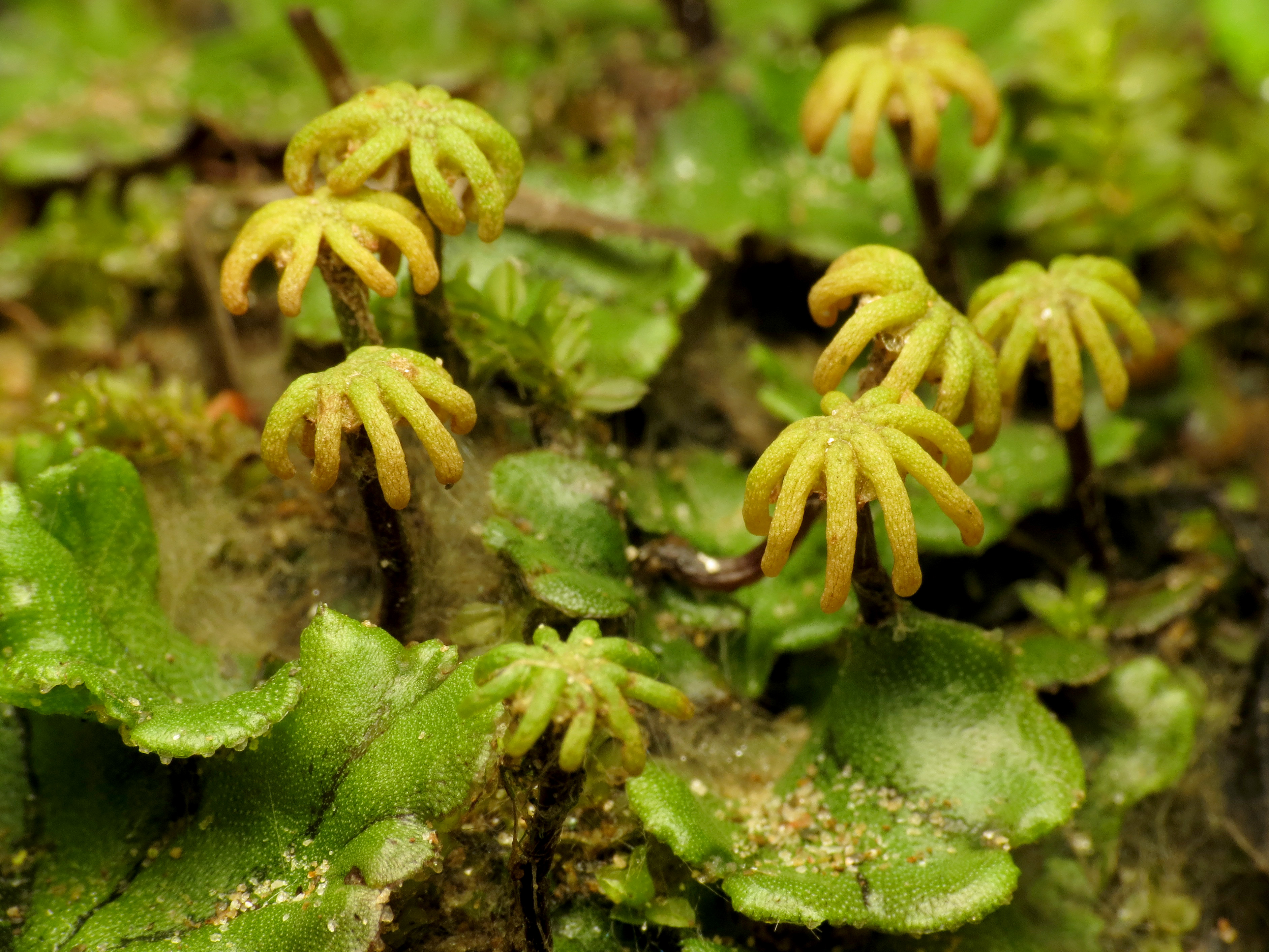 Marchantia polymorpha. Rock Creek Park, Washington, DC, USA.